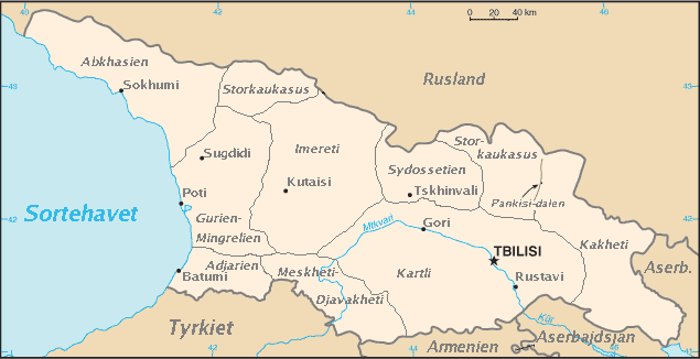 Map of Georgia (including de-facto independent Abkhazia) - Danish version